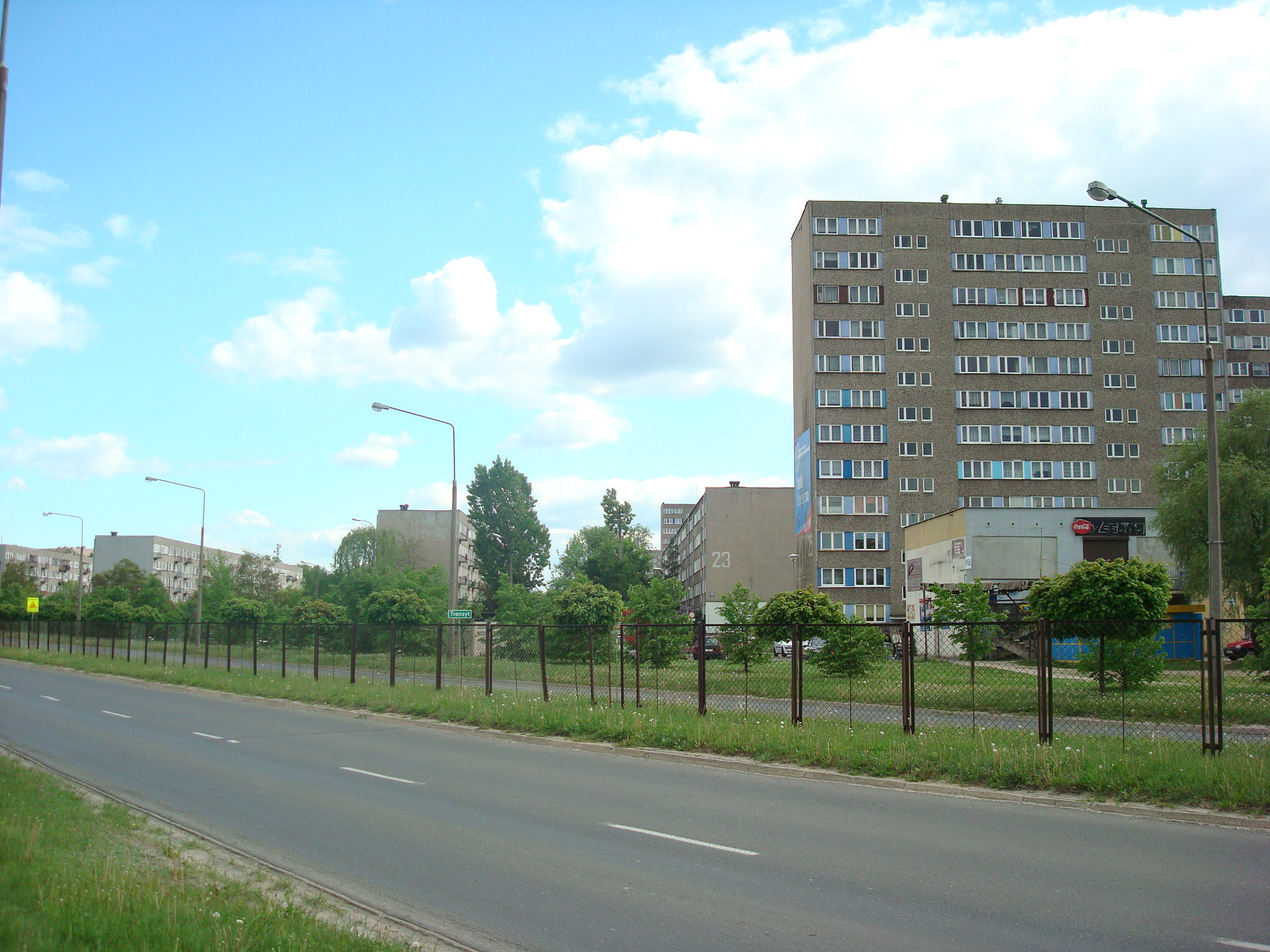 Housing estate of millennium in Siedlce (II period)